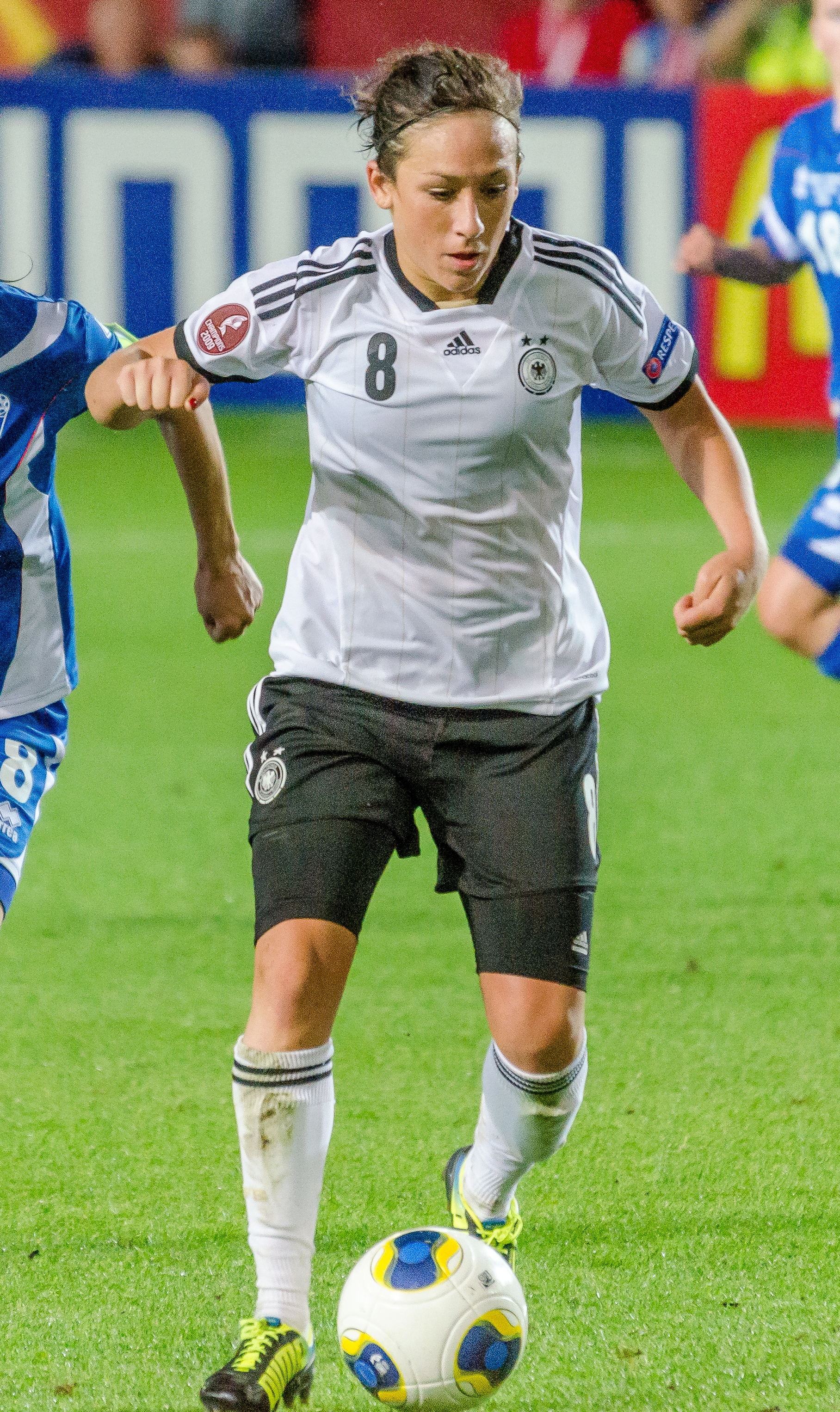 German football midfielder Nadine Keßler playing a Group stage game against Iceland in the UEFA Women's Euro 2013 at Myresjöhus Arena in Växjö.